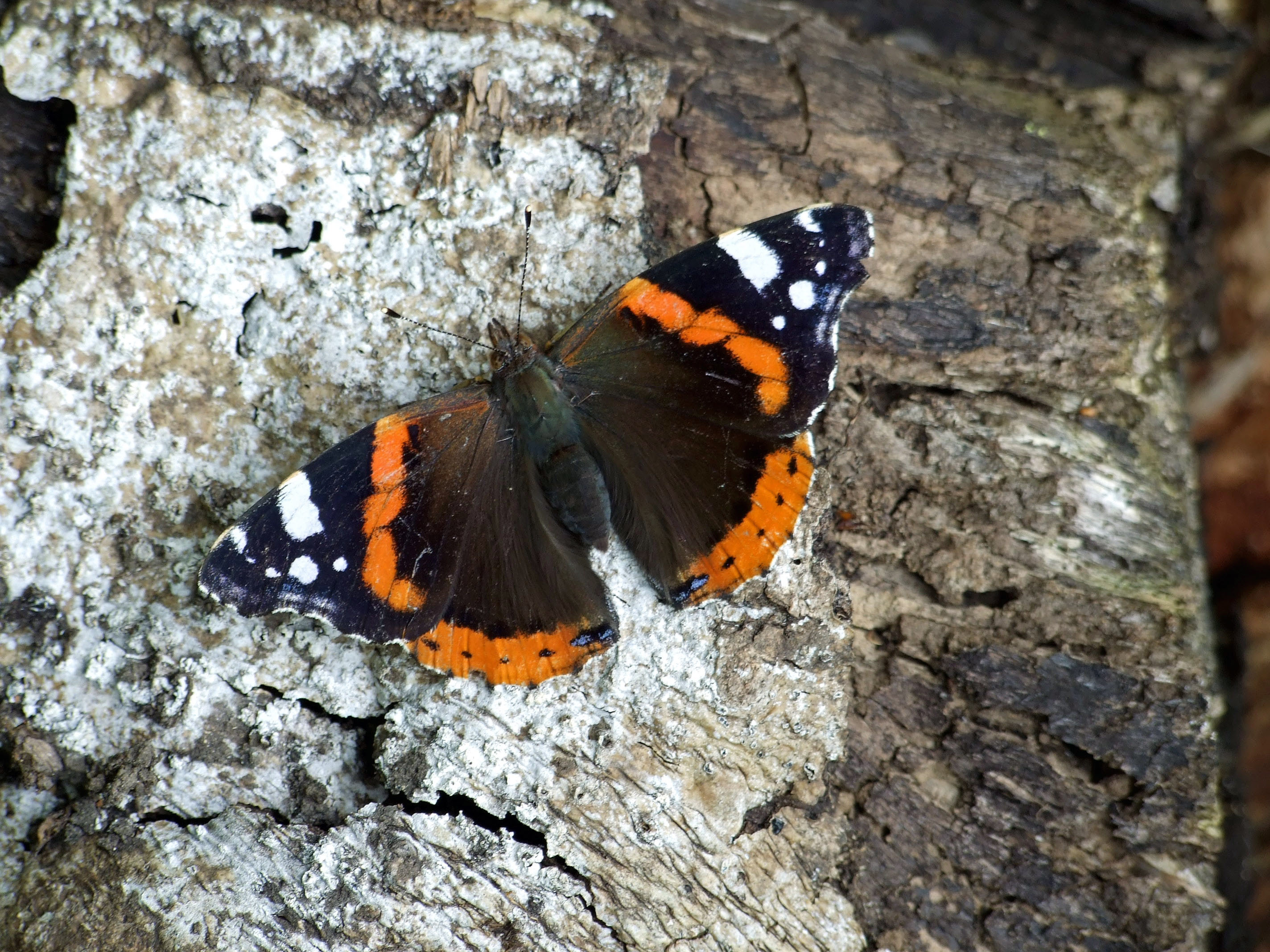 Red Admiral (vanessa atalanta)